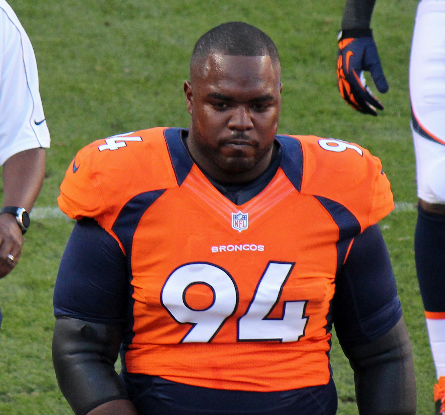 Ty Warren, a player on the National Football League.